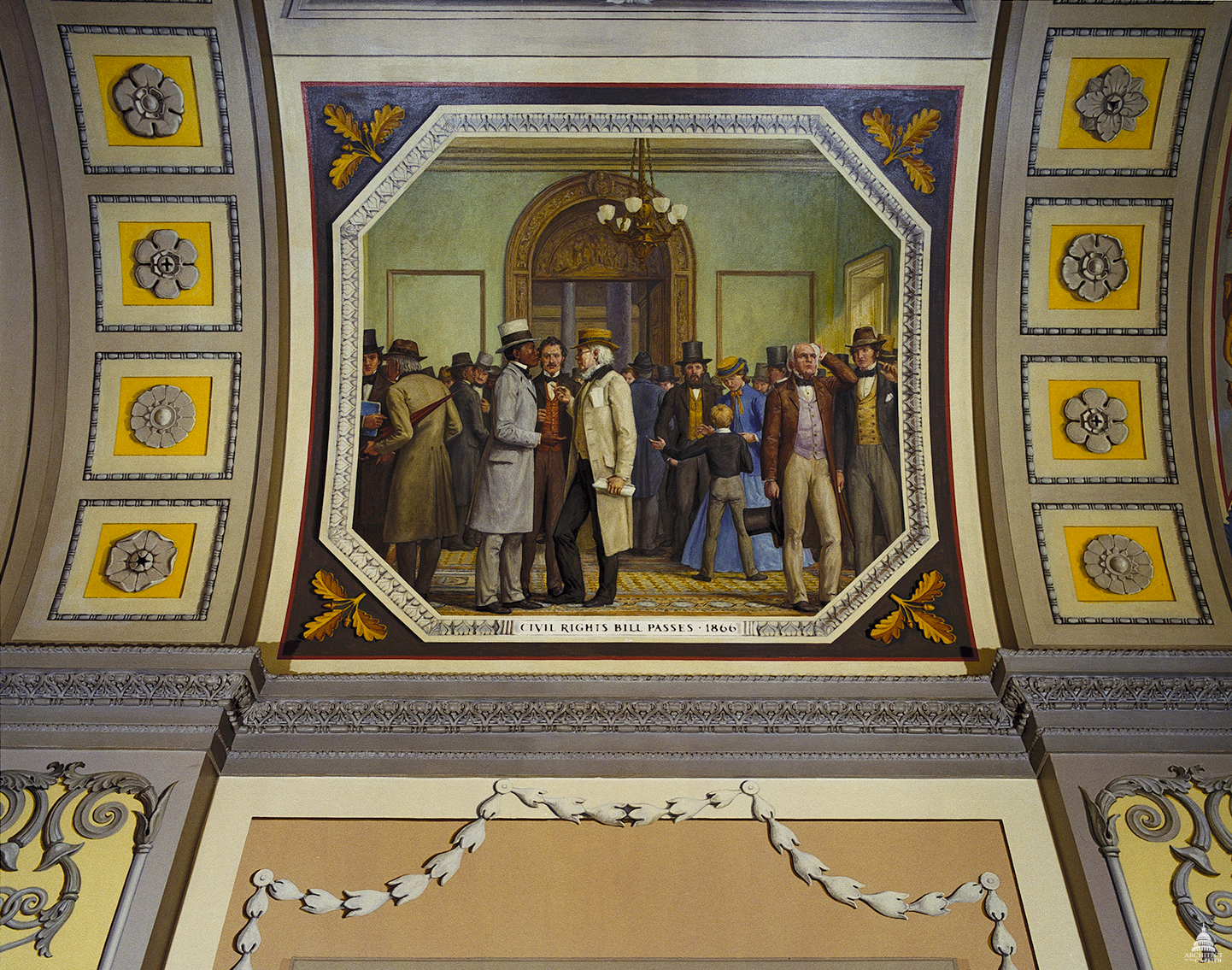 Allyn Cox Oil on Canvas 1973-1974 The 1866 civil rights bill, which prohibited discrimination on the bases of race or previous condition of slavery, prefigured the 14th amendment to the Constitution. In the foreground of the mural, former slave Henry Garnet is shown speaking with newspaper editor Horace Greeley, who supported African American suffrage. In the background are the Columbus doors, which originally led to the House Chamber but were later moved to the Rotunda entrance. This official Architect of the Capitol photograph is being made available for educational, scholarly, news or personal purposes (not advertising or any other commercial use). When any of these images is used the photographic credit line should read “Architect of the Capitol.” These images may not be used in any way that would imply endorsement by the Architect of the Capitol or the United States Congress of a product, service or point of view. For more information visit